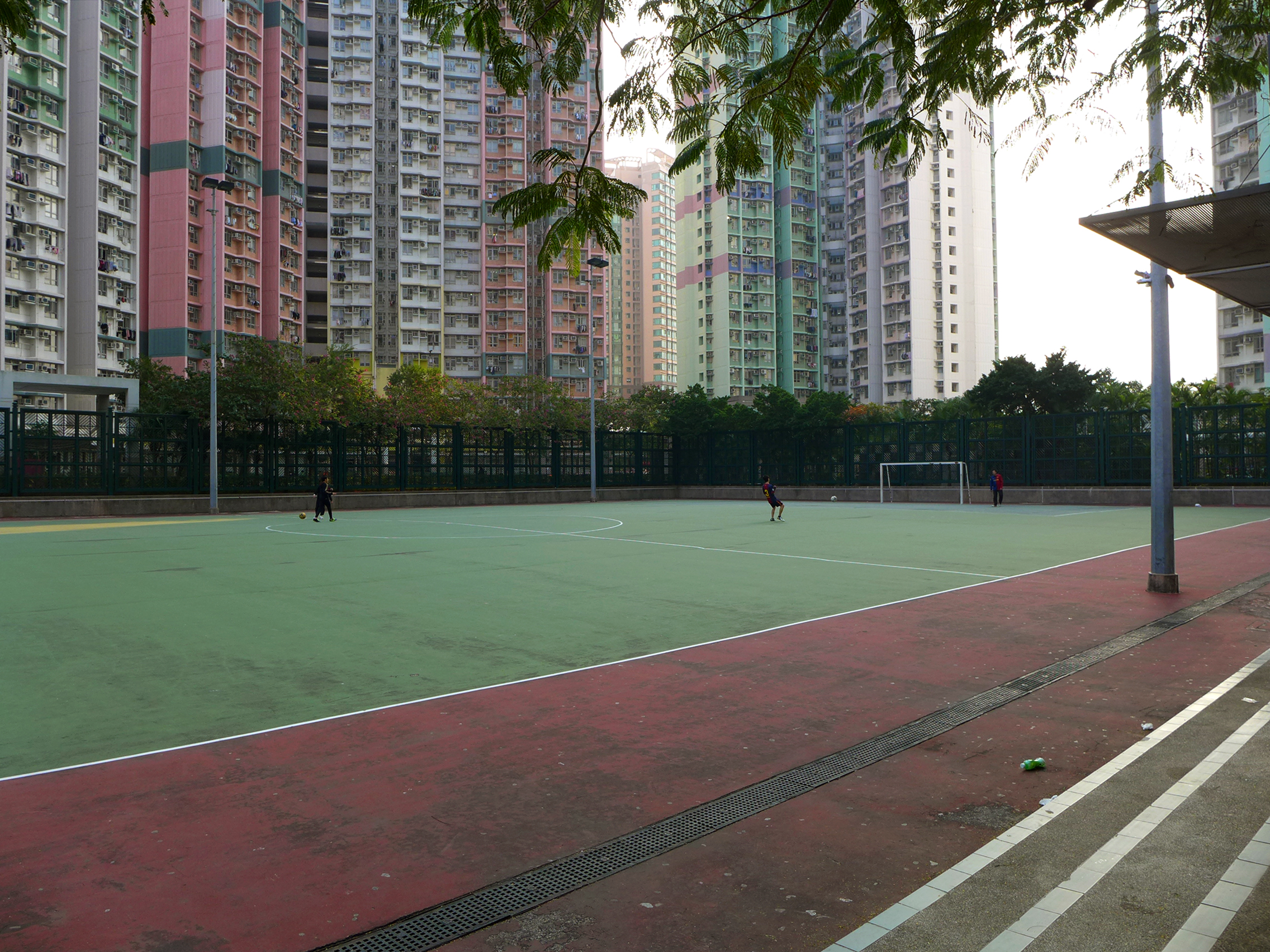 Chung On Estate Football Field